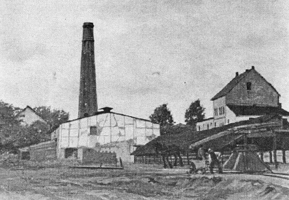 Former brickyard Lehnmarke (part of Wildenbruch), painting dated around 1908. Wildenbruch is a part of Michendorf in the district Potsdam-Mittelmark, state Brandenburg, Germany.